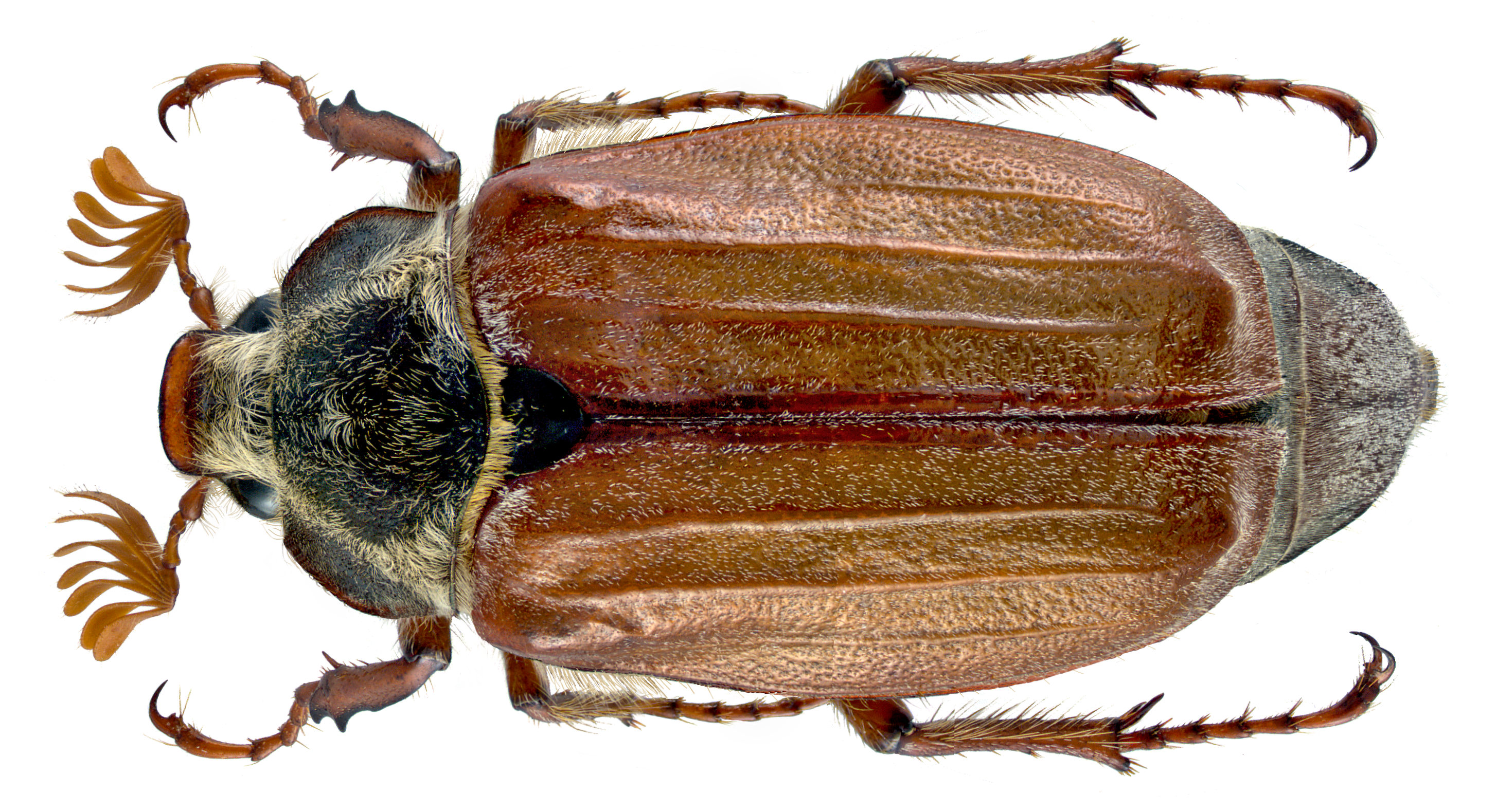 Family: Scarabaeidae Size: 28 mm (20-30 mm) Origin: Central Europe Ecology: lives in more open habitats, larvae feed on roots Location: Germany, Bavaria, Upper Franconia, Kulmbach leg.det. U.Schmidt, 31.V.1972 Photo: U.Schmidt, 2014